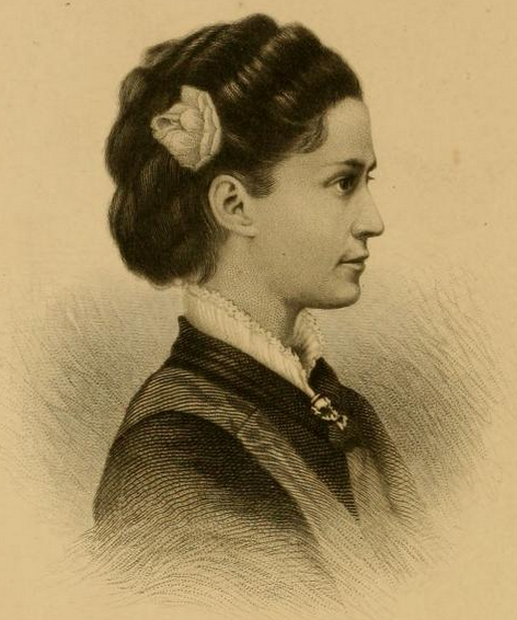 Alice Arnold Crawford, from an 1875 publication.